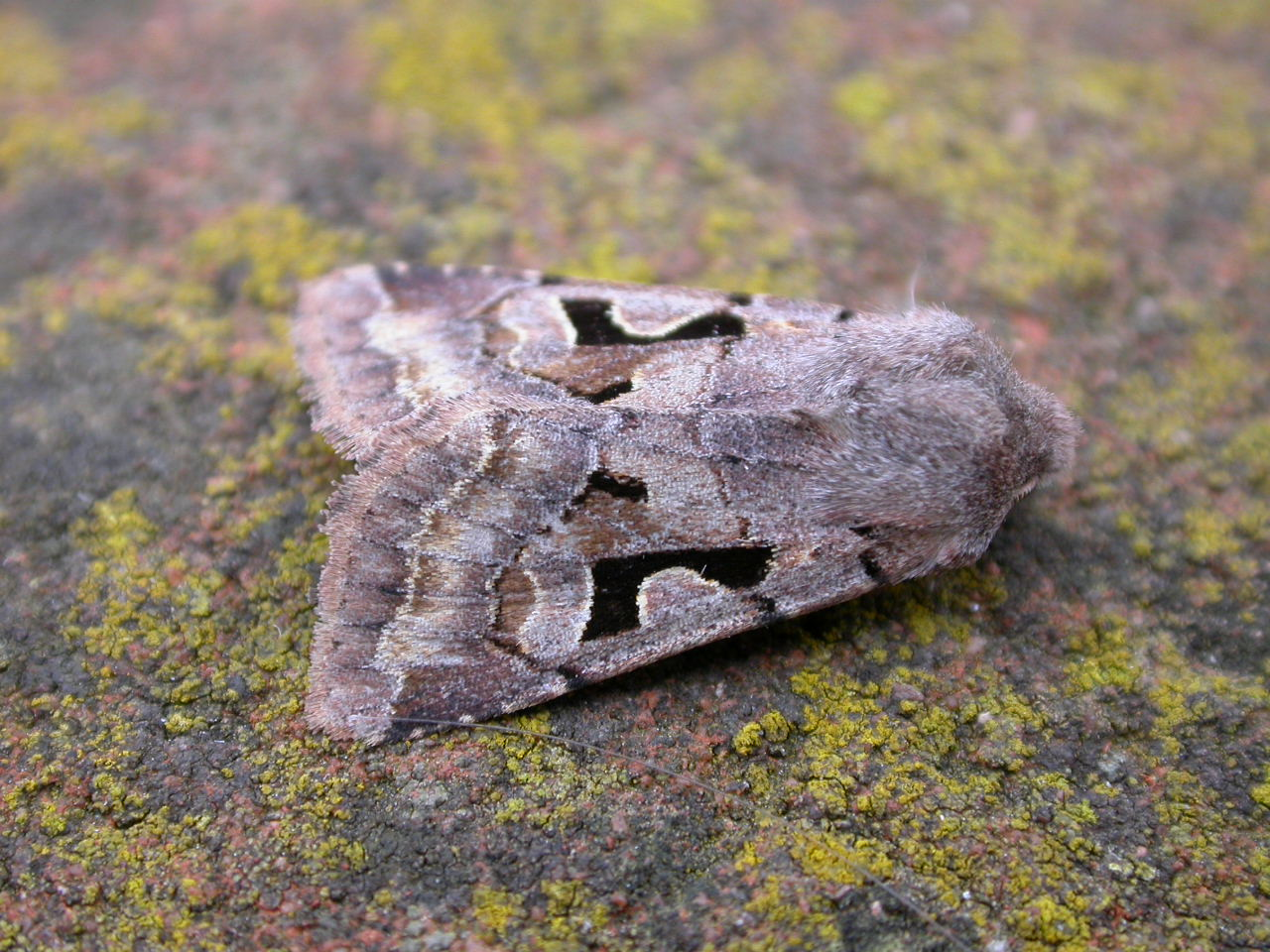 Orthosia gothica, to MV light, Walton-on-the-Naze, Essex, England, 29 March 2004